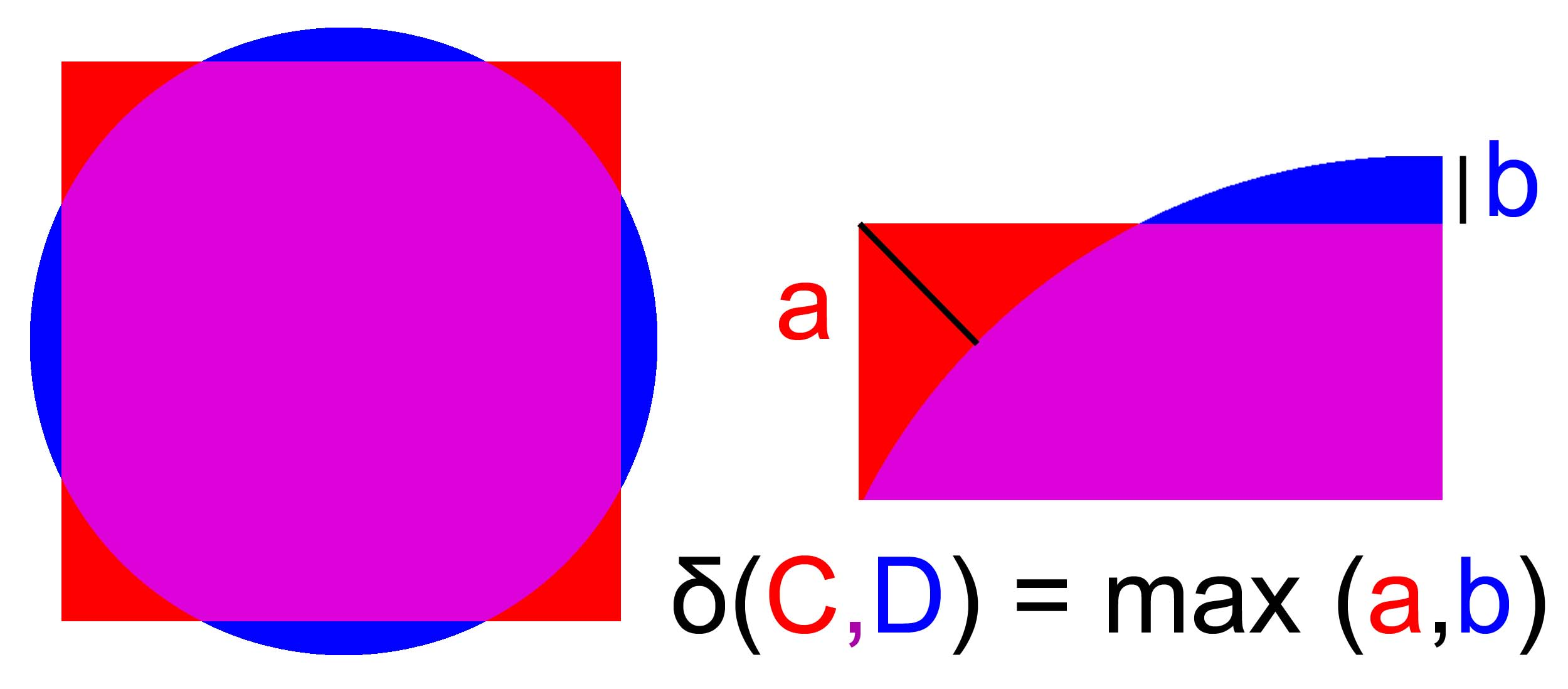 Example of Hausdorff distance